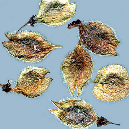 Seeds of American elm